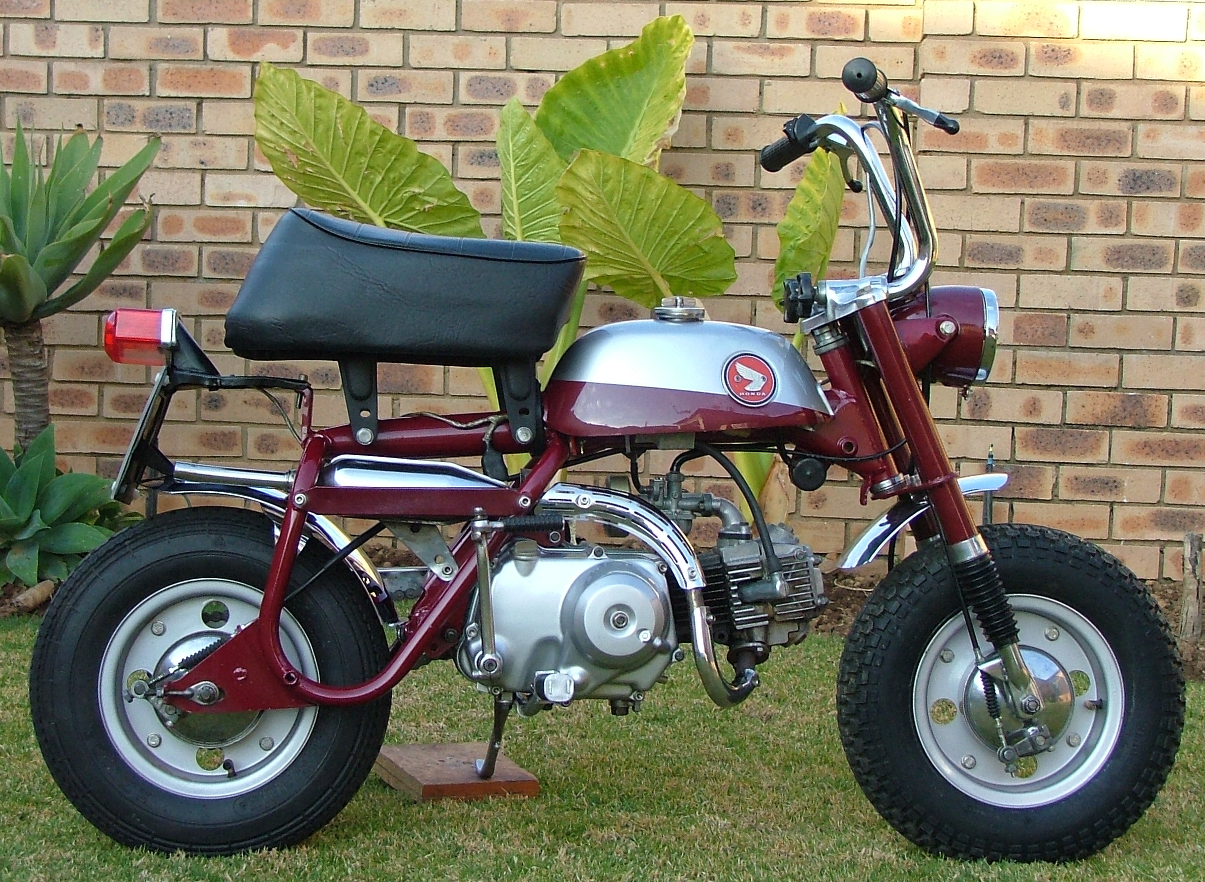 Honda Z50A K1 South African Model With Speedometer marked up to 30MPH